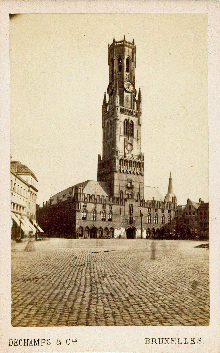 The belfry of Bruges (Belgium) by photographer Pierre-Edouard Dechamps (1828-1896). The picture was taken before 1878.